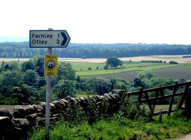 The Washburn Valley Looking southwest from the junction of minor roads. Lindley Bridge is some 500 metres to the west in the direction of Farnley.